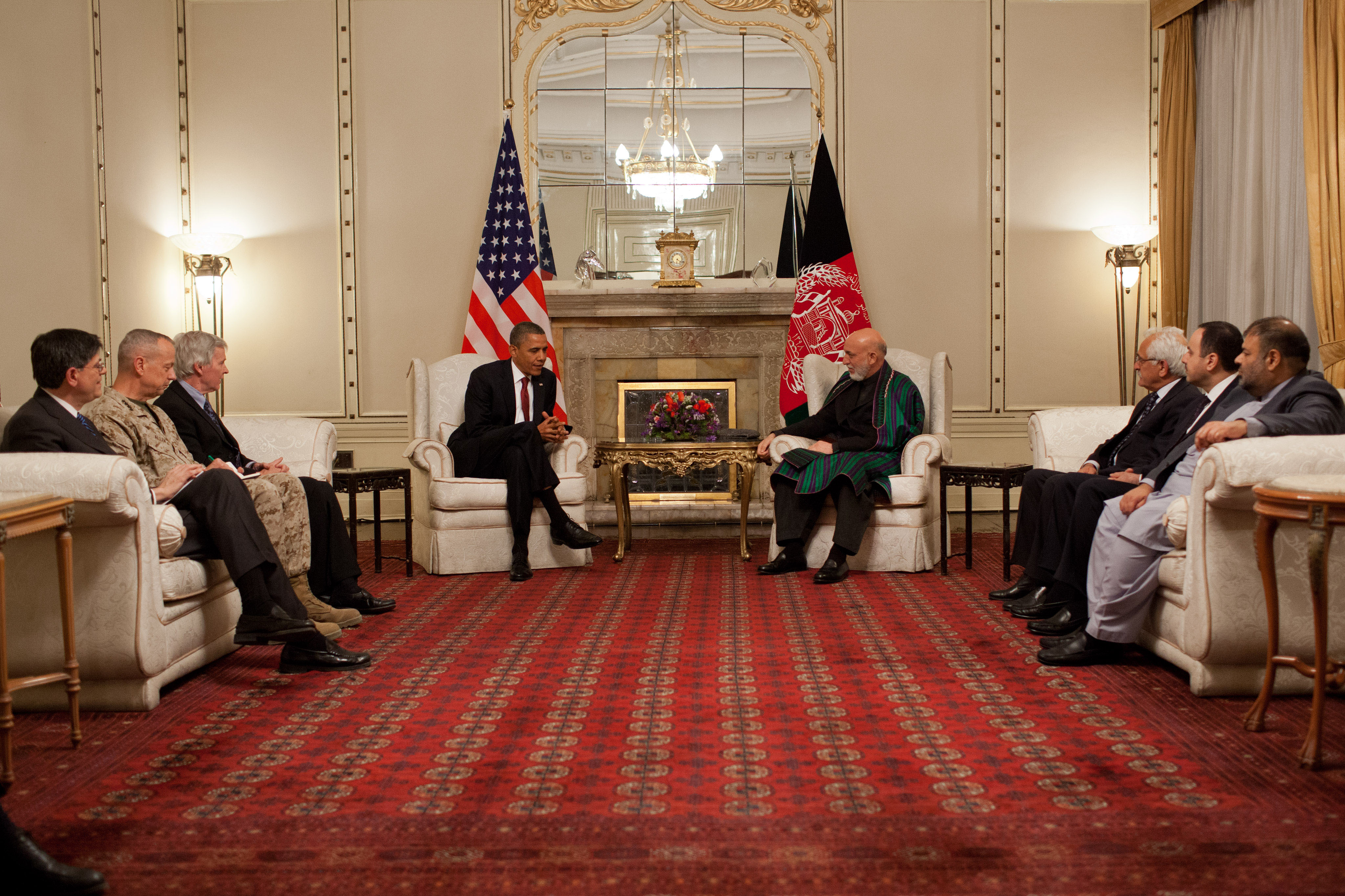 President Barack Obama participates in a bilateral meeting with Afghan President Hamid Karzai at the Presidential Palace in Kabul, Afghanistan, May 1, 2012. (Official White House Photo by Pete Souza)